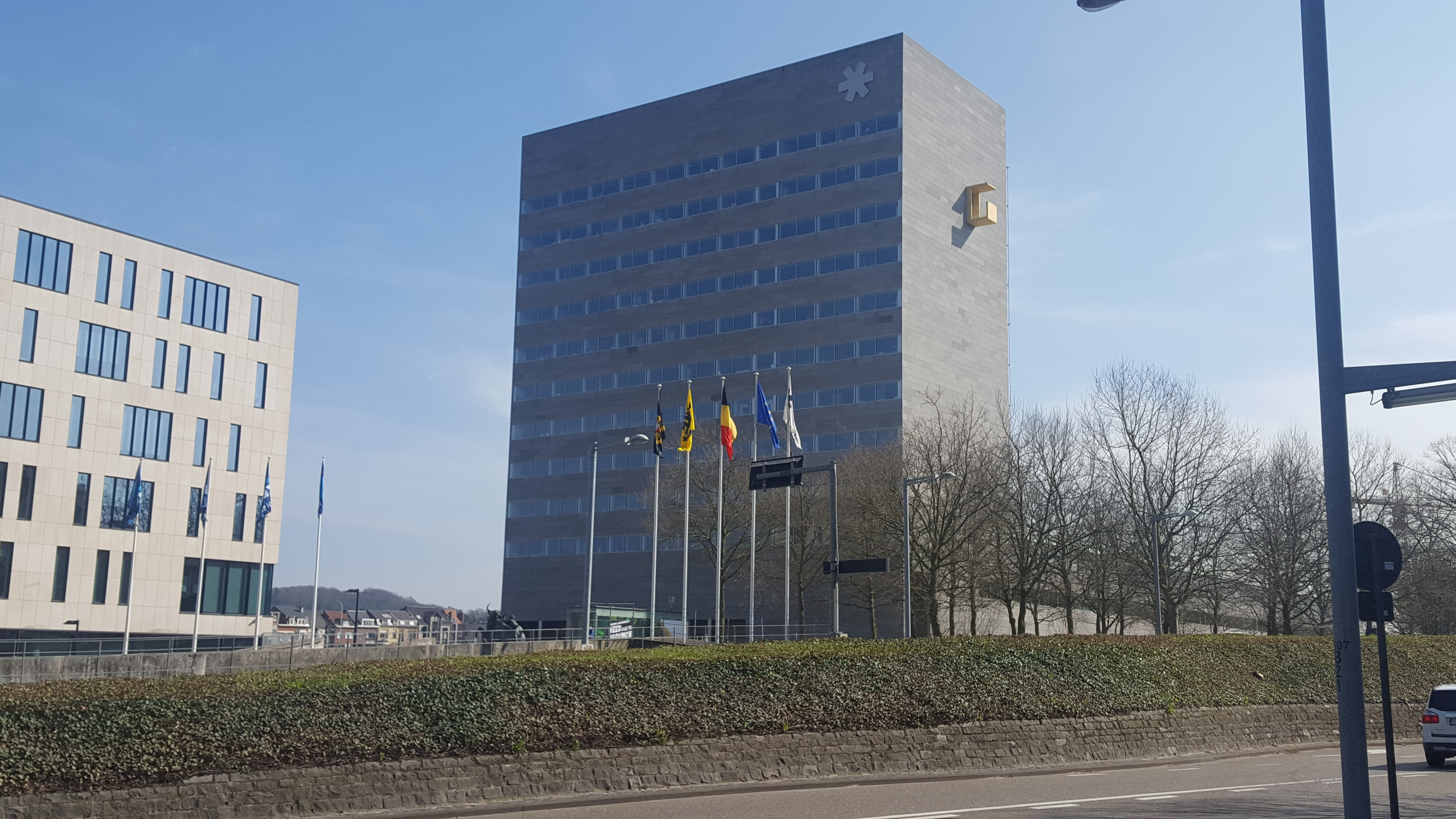 Provinciehuis Vlaams-Brabant at Provincieplein in Leuven